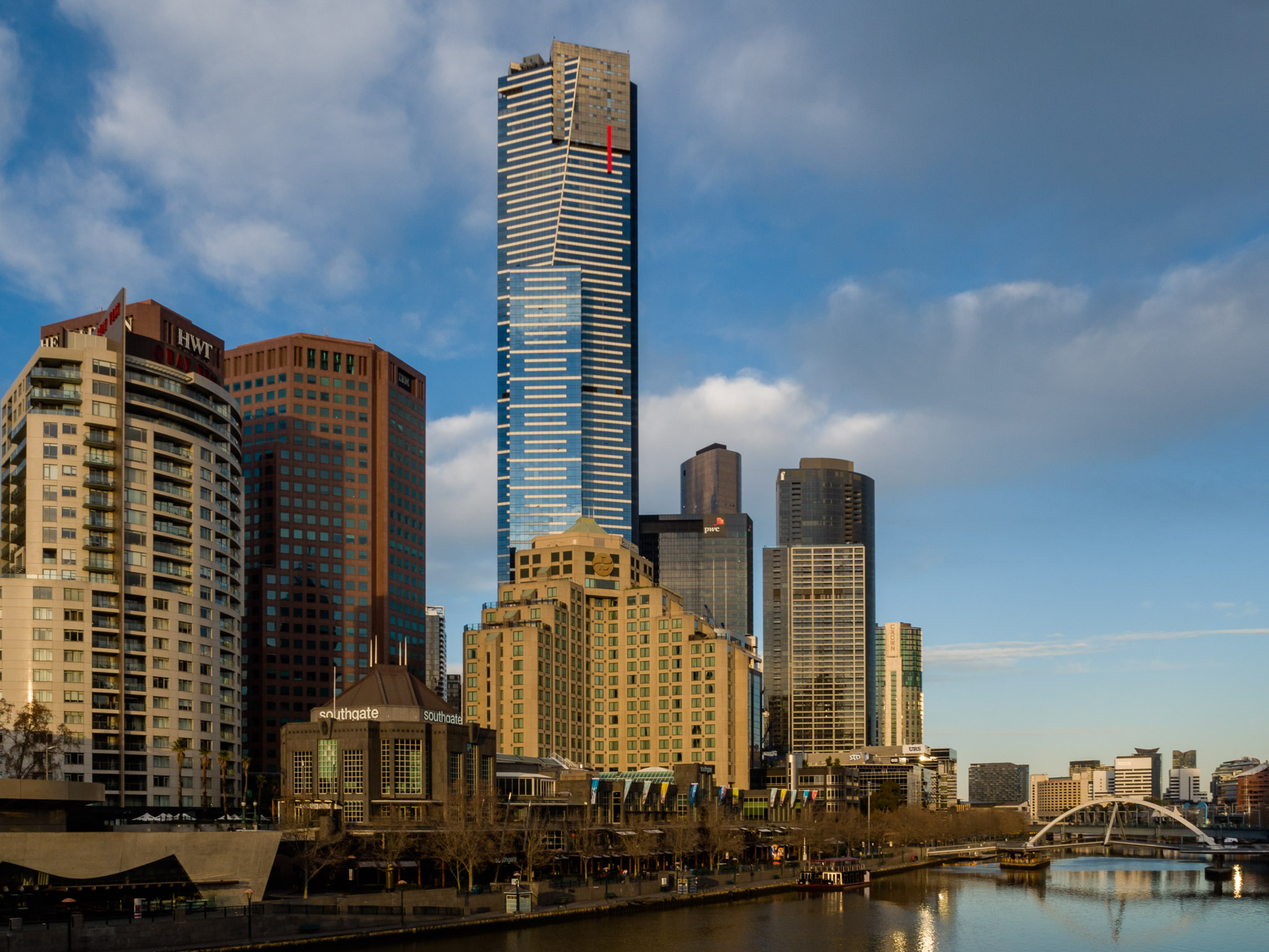 A cluster of skyscrapers in Southbank, an inner-city suburb and precinct of Melbourne, Australia.